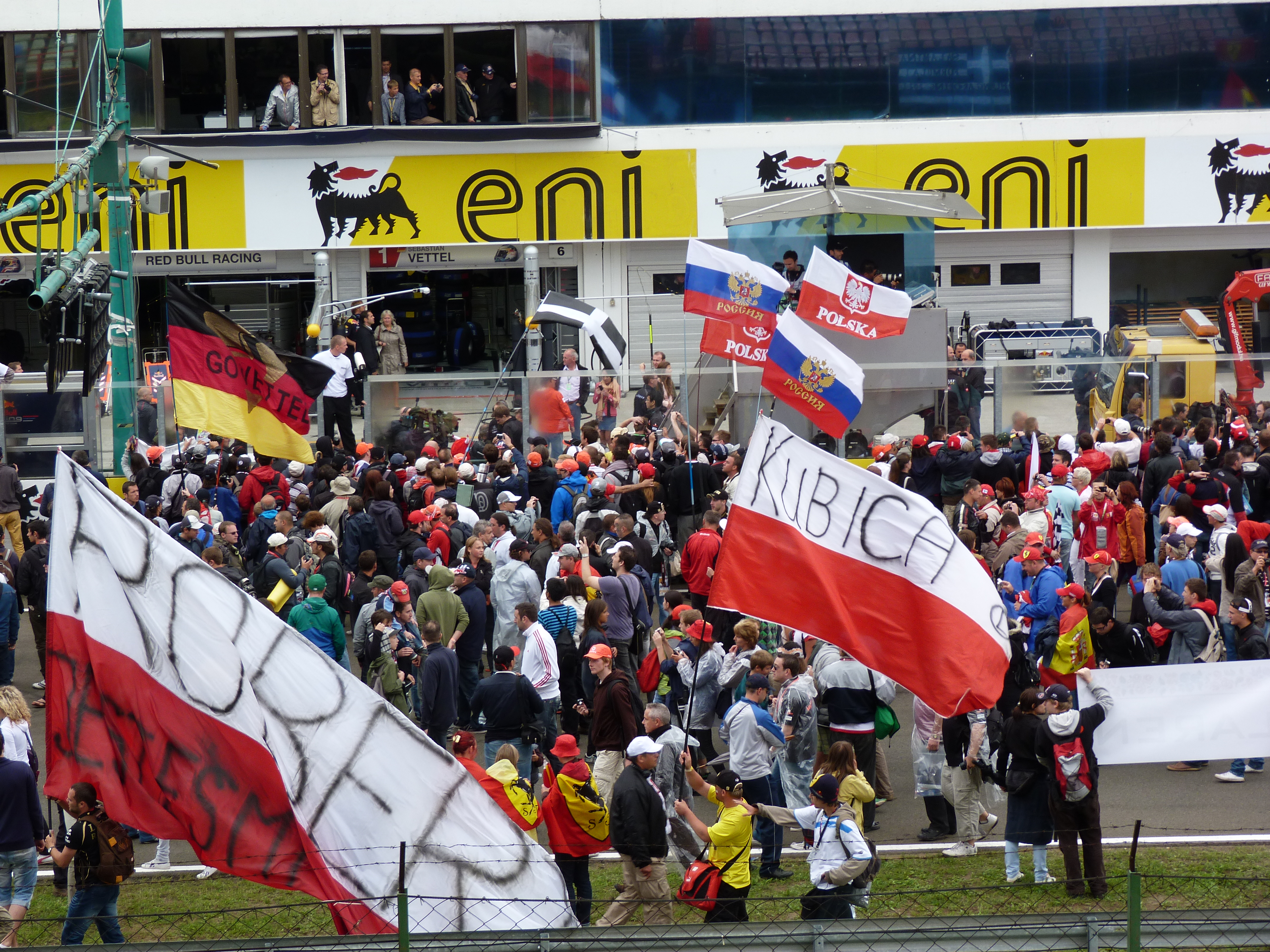 Live on the 31 st of July, 2011. Hungaroring, Mogyoród, Hungary. The 26 th Formula 1 Hungarian Grand Prix started at 2 pm. Fans.Budapest has always been special place for Jenson Button: it was here that he took his first Grand Prix win five years ago - and it is here that he has taken victory in his 200th Grand Prix. Red Bull's Sebastian Vettel stretched his commanding lead in the championship with a second-place finish in wet conditions Sunday.